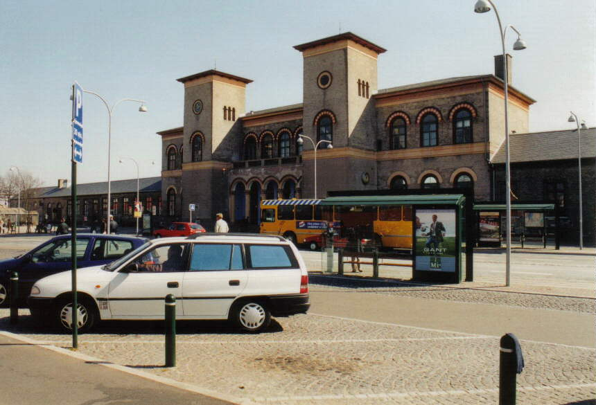 Roskilde, Denmark: station building